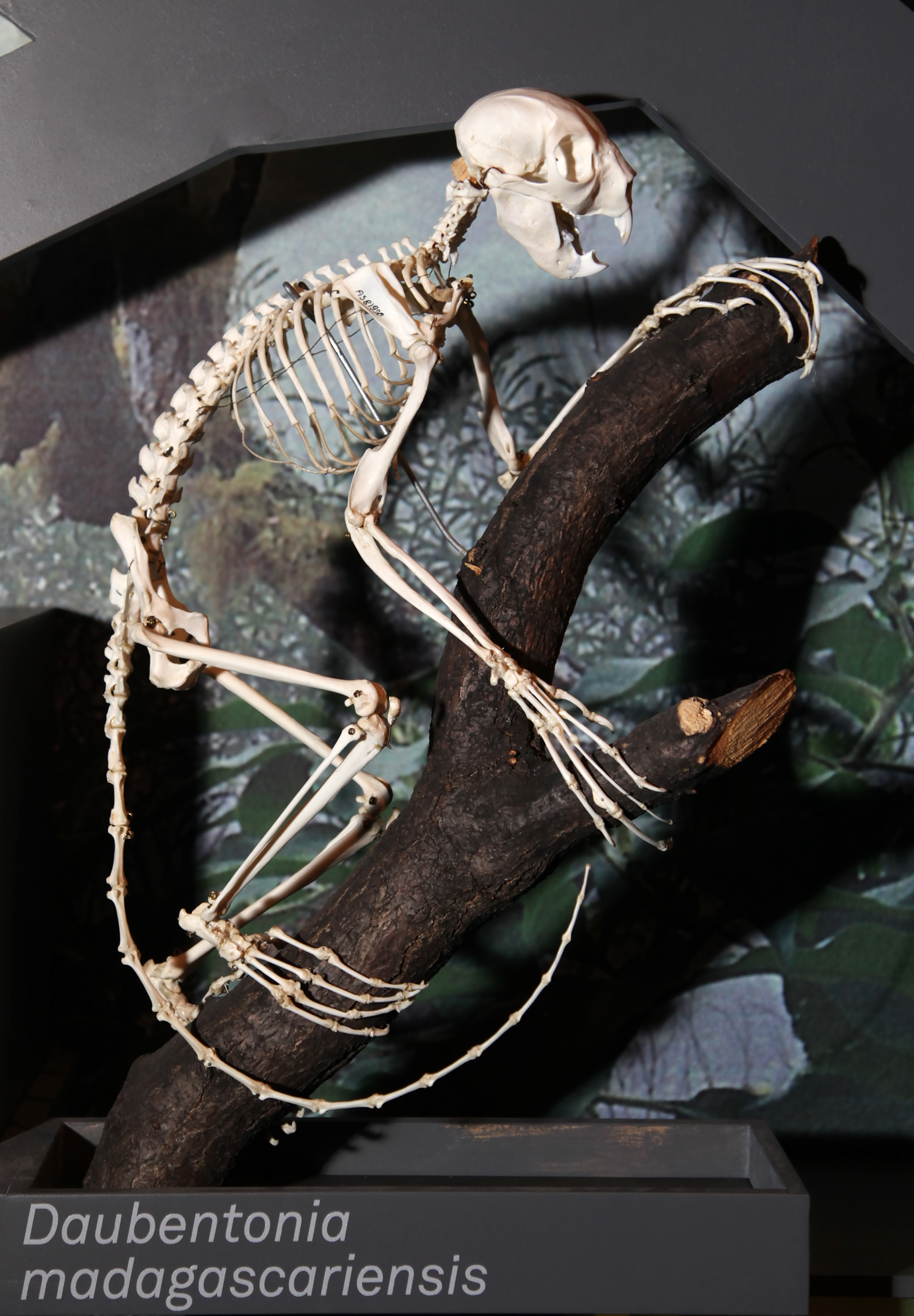 Aye-Aye (Daubentonia madagascariensis) on display at the Swedish Museum of Natural History, Stockhom.